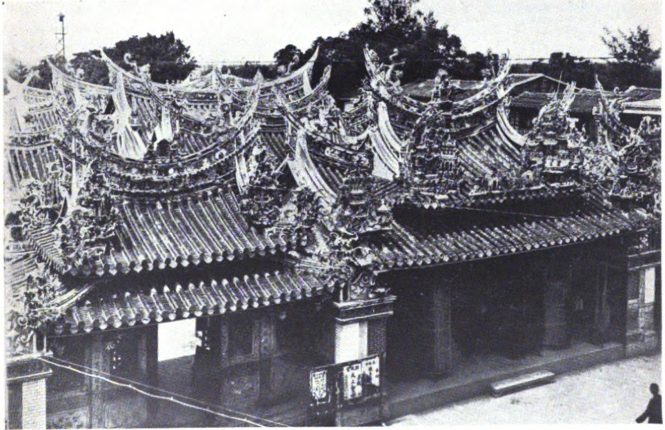 Choten temple, Hokko